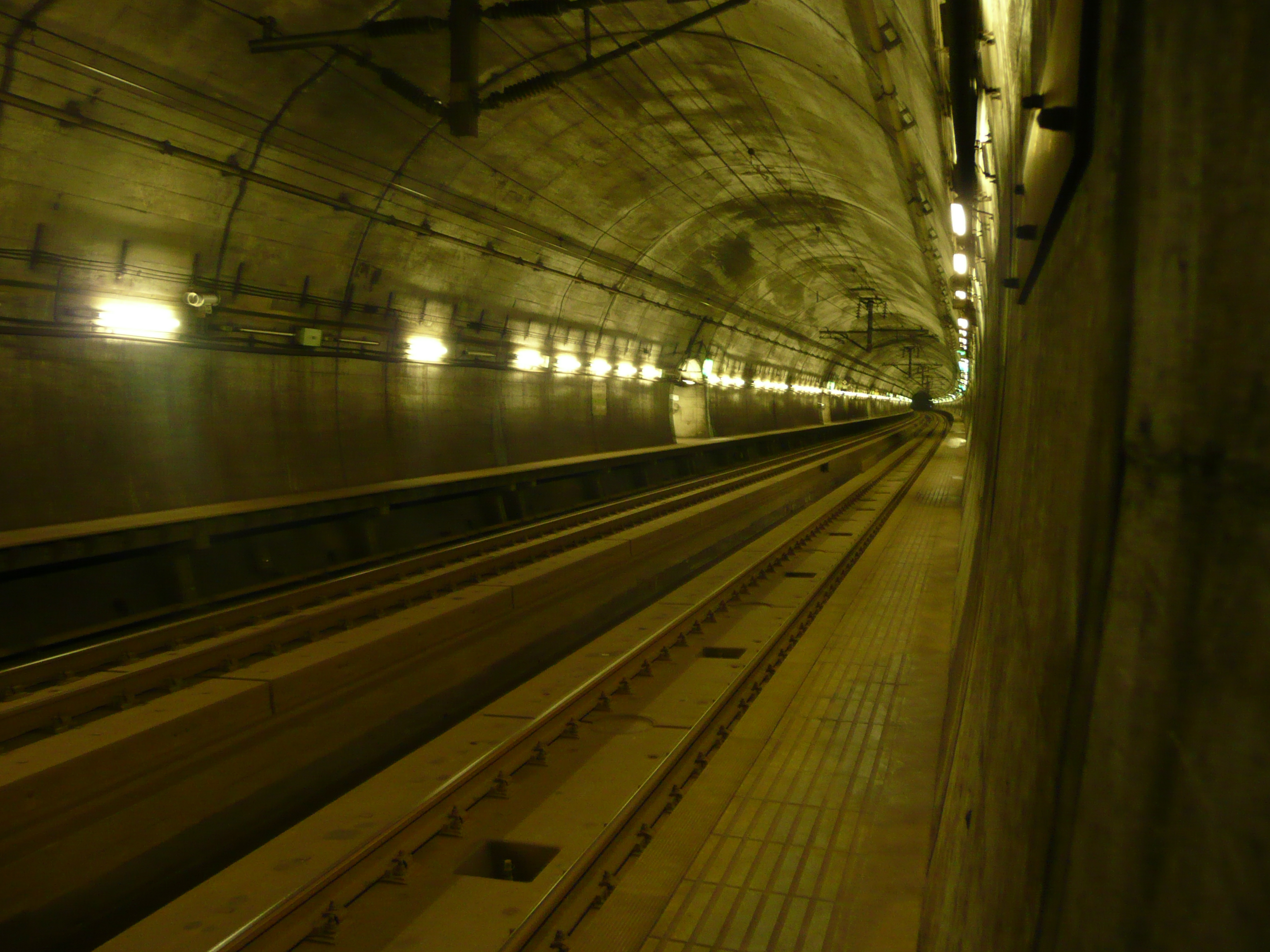 Platform of Tappi-kaitei Station